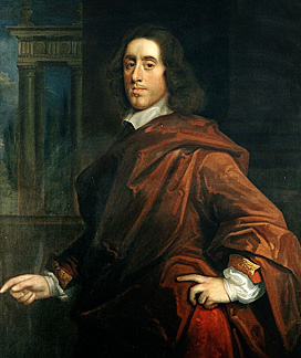 Sir Henry Vane the Younger, English parliamentarian during the English Civil War, and one-term governor of the Massachusetts Bay Colony.